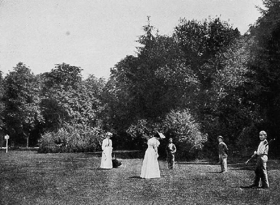 Golf on the Old Course at Bad Homburg, Germany